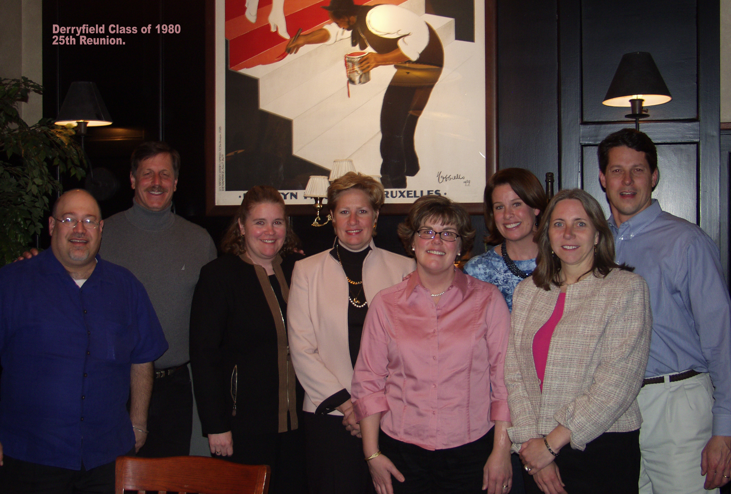 Members of the Derryfield Country Day school Class of 1980 attending a 25 year reunion dinner.